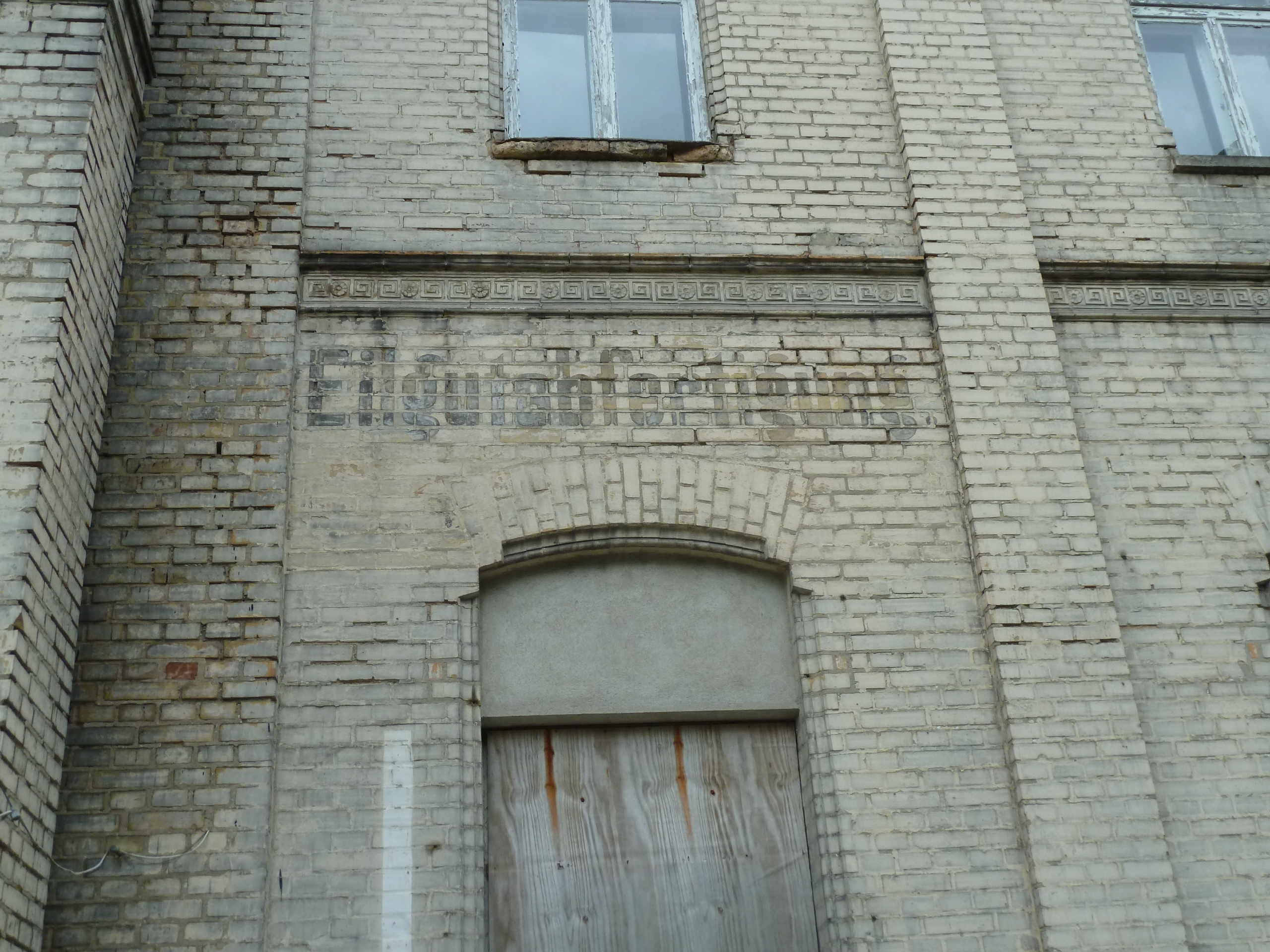 The Berlin-Halberstädter Bahnhof in Köthen (adjacent to the recent Köthen station) was in use from about 1870/71 to 1917. The neogotic building is part of sequences of station buildings from different epoches wich is unique for Gernamy. Detail at the entrance.